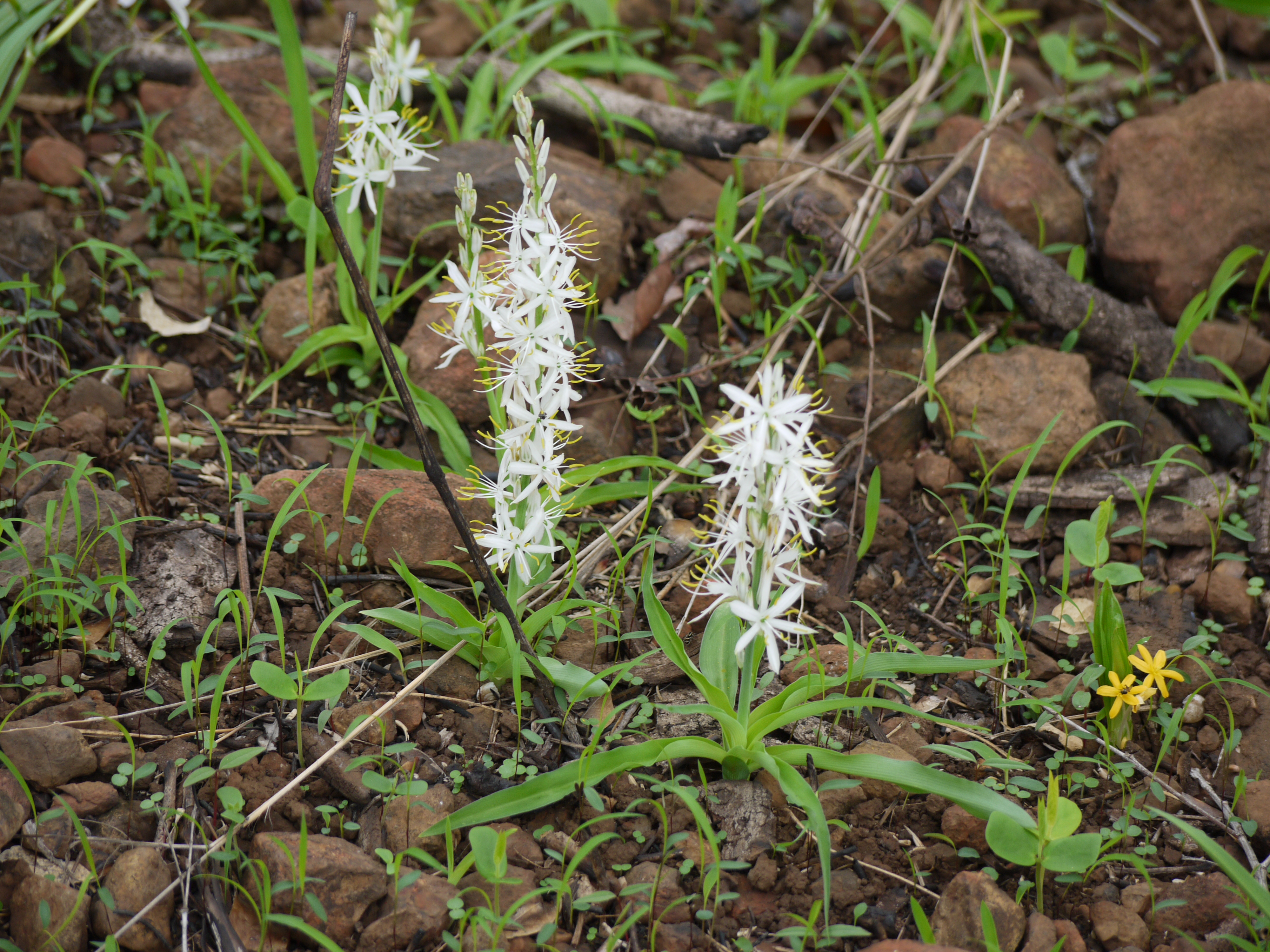 Liliaceae (lily family) » Chlorophytum borivilianum kloh-roh-FY-tum -- from the Greek chloros (green), and phyton (plant) bory-wili-YAH-num -- of or from Borivili National Park, India commonly known as: safed musali • Gujarati: ધોળુ મૂસળી dholu musli • Hindi: सफ़ेद मुसली safed musli • Marathi: कुळई kulai, सफेत मुसळी safet musli Endemic to: India (Maharashtra and Gujarat; elsewhere cultivated) References: Flowers of India • FRLHT • Further Flowers of Sahyadri - Shrikant Ingalhalikar